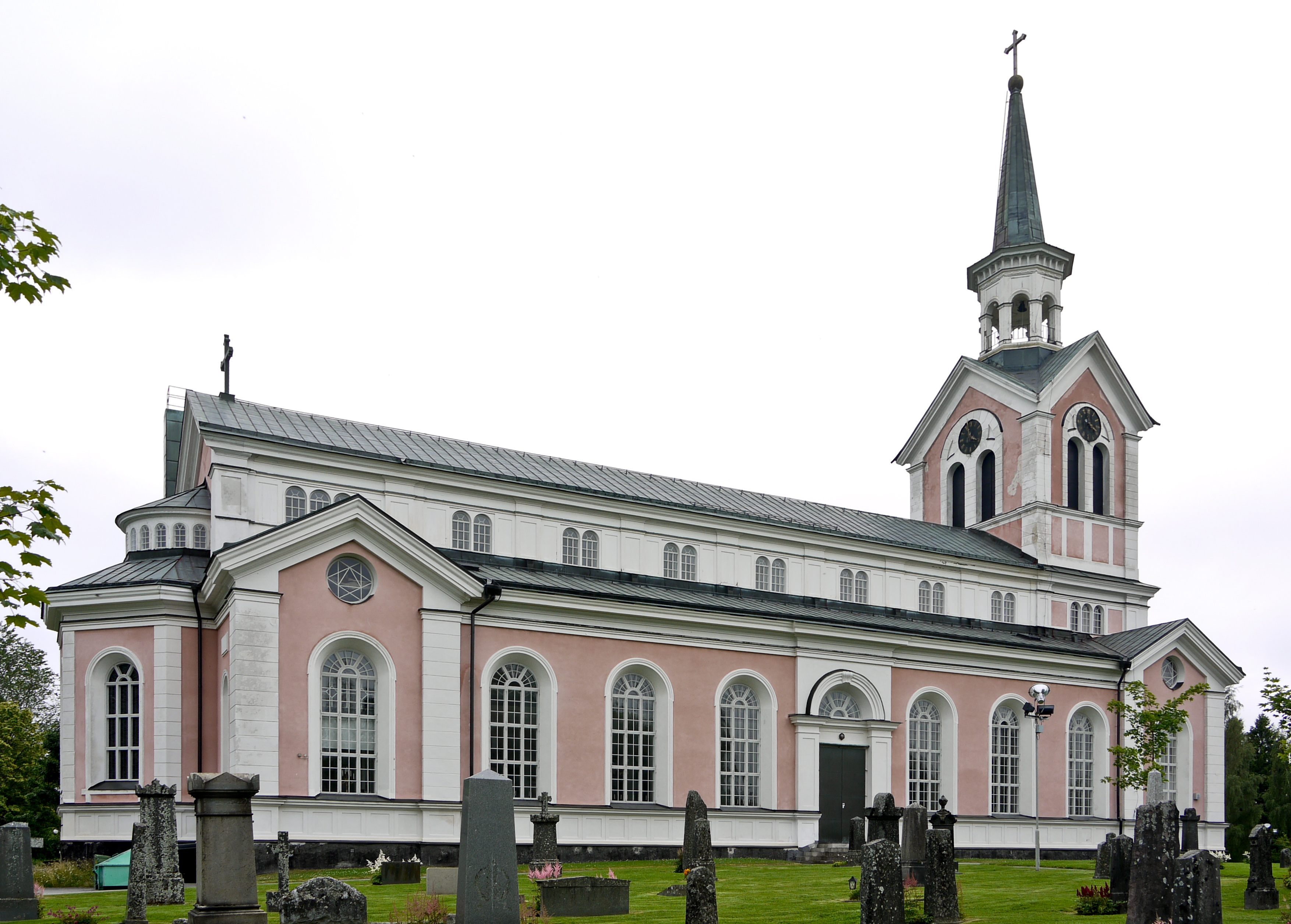 Njurunda church, Diocese of Härnösand, Skellefteå, Sweden.